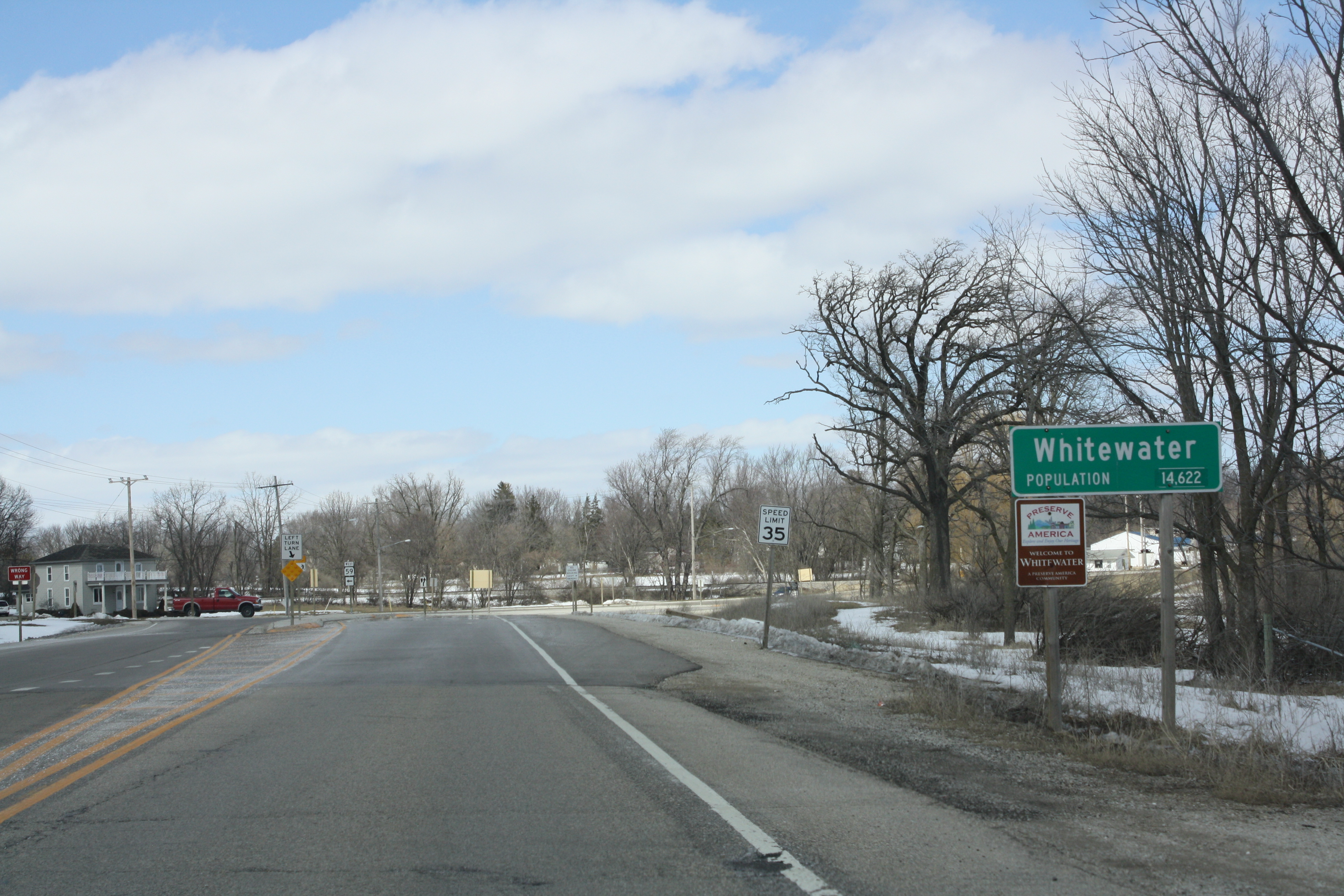 The sign for Whitewater, Wisconsin on Wisconsin Highway 59.